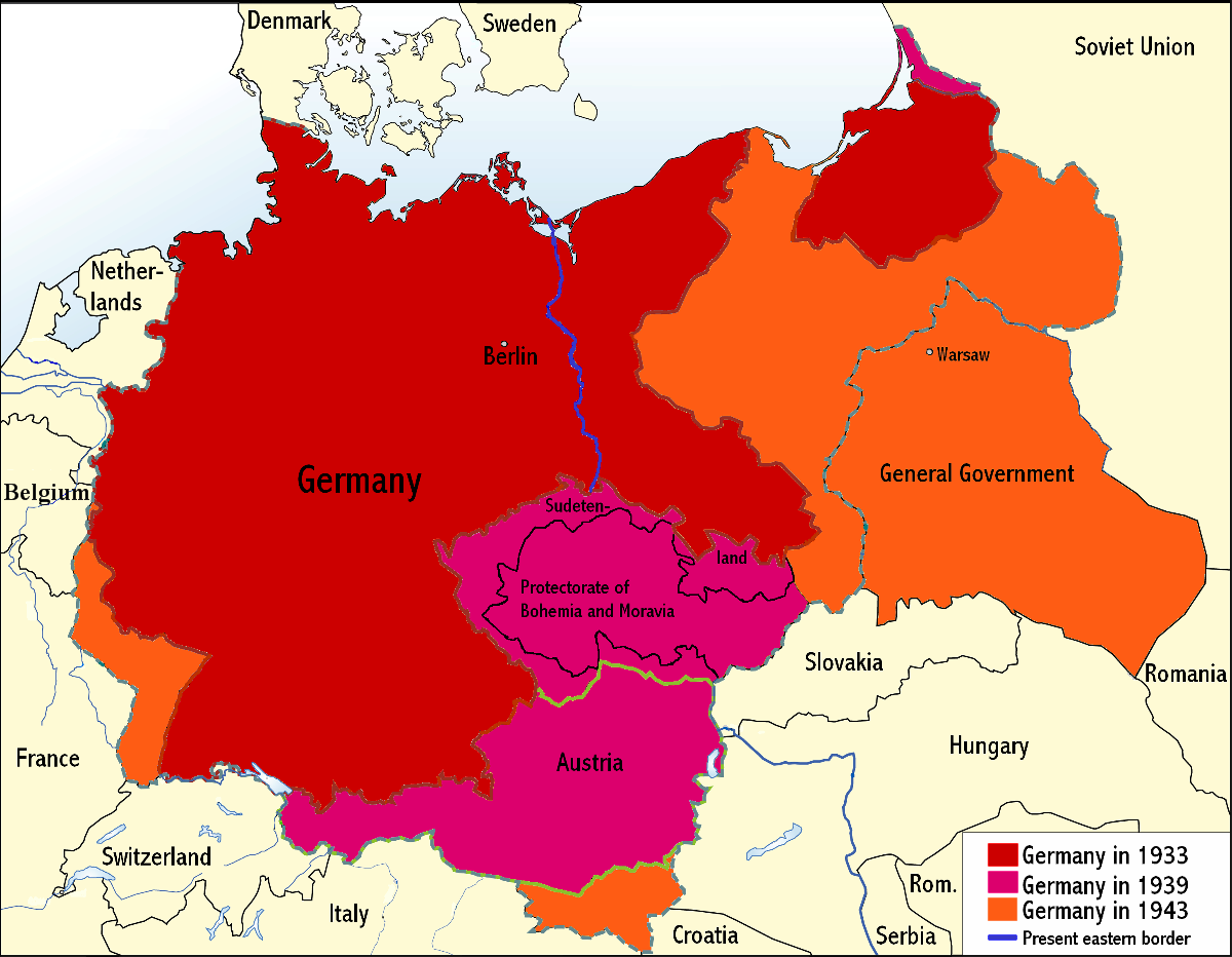 An overview map of Nazi Germany to 1943.